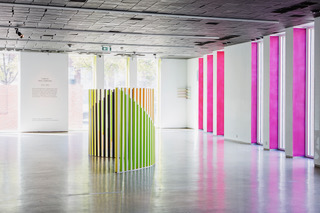 Lundebrekke_Fargerom: skal krediteres fotografen Anne-Line Bakken